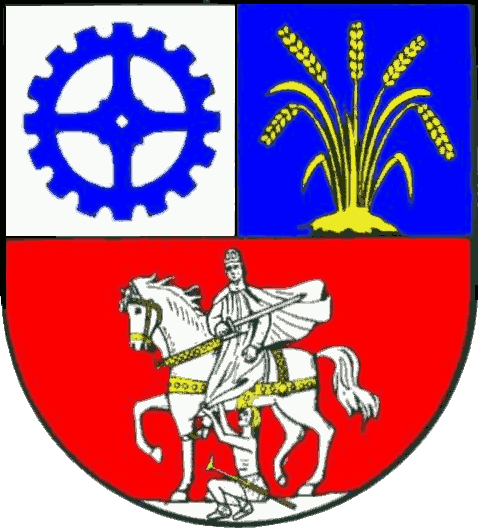 Coat of arms of the town (Stadt) Nortorf in Schleswig-Holstein, Germany.